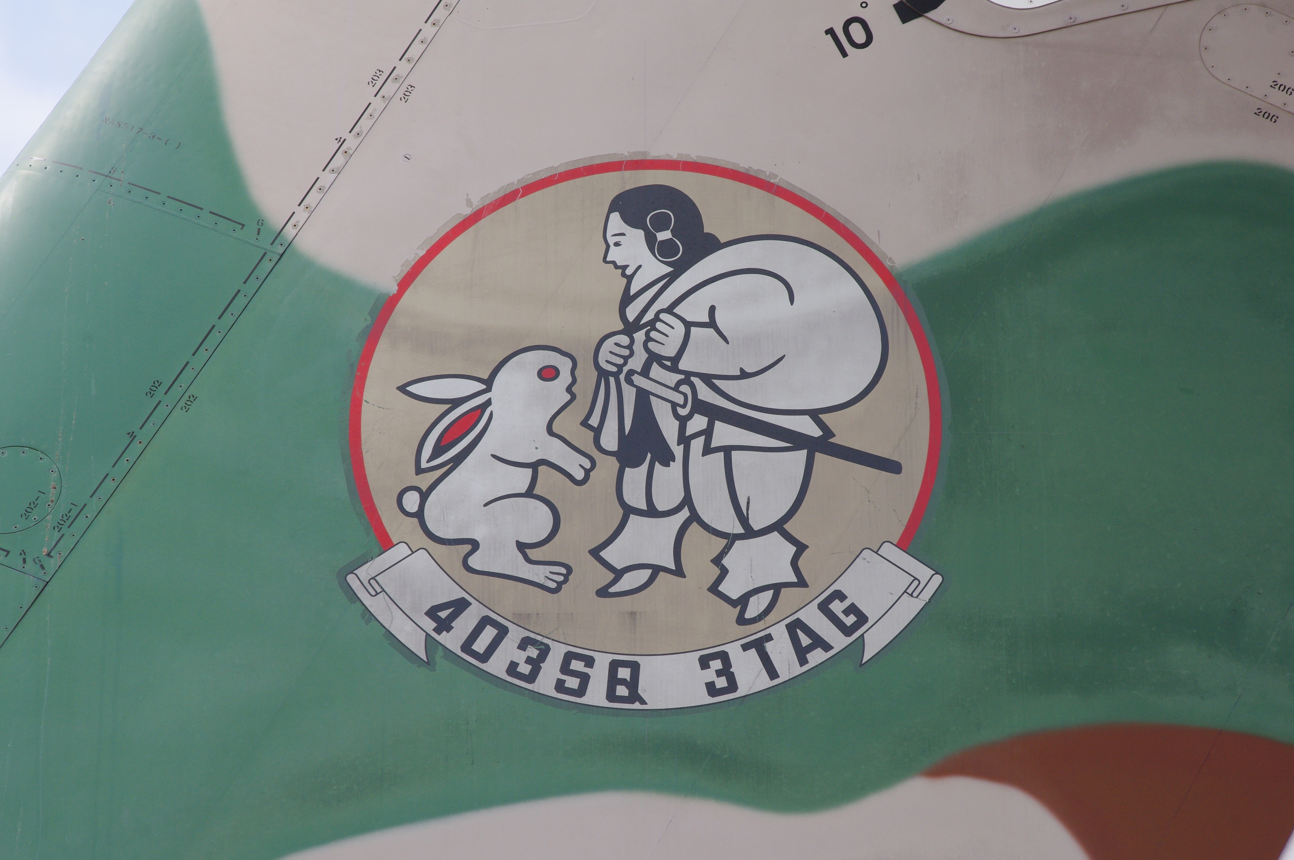 Taken at Centrair on 14 Oct 2012.